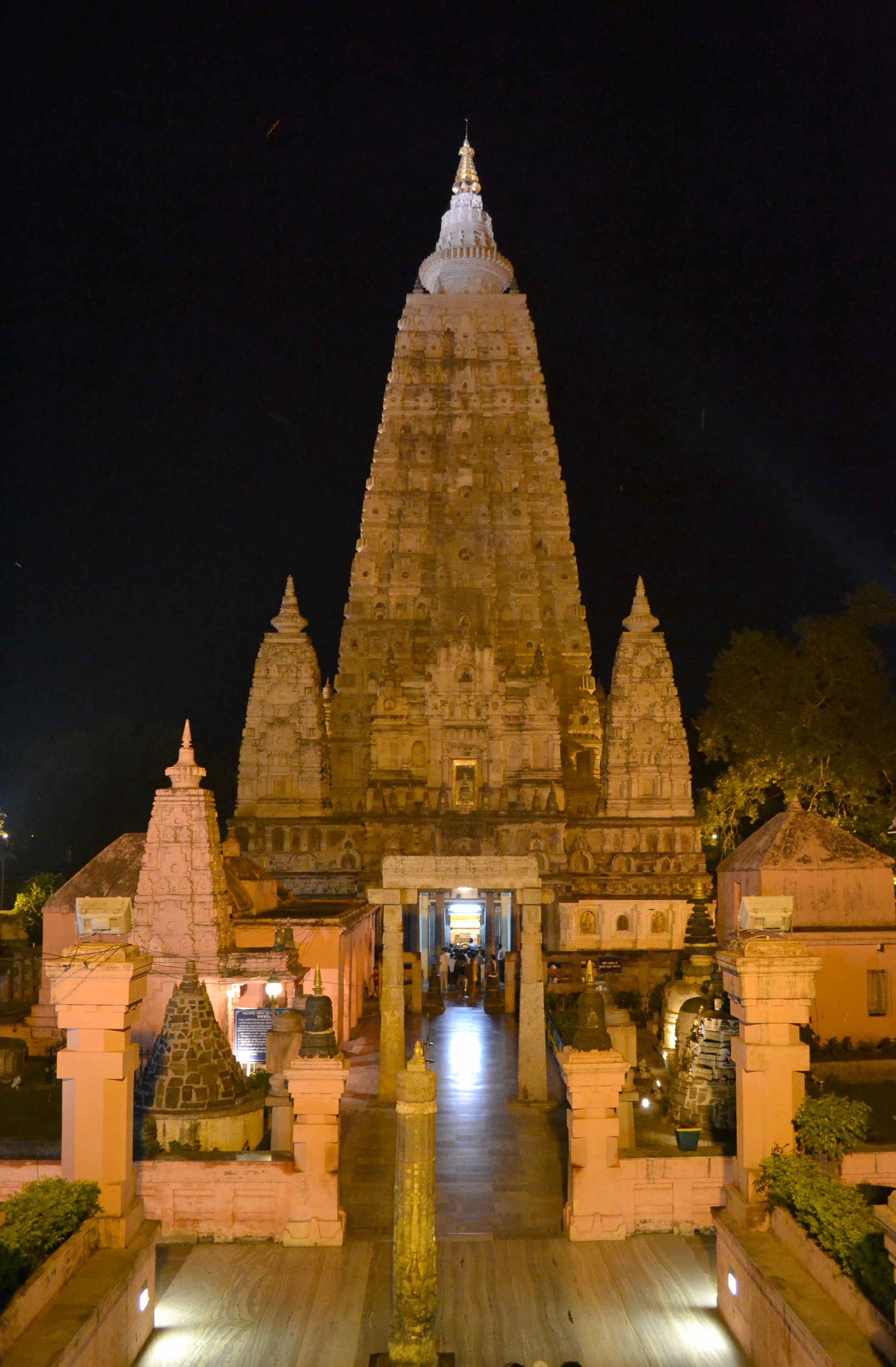 The Mahabodhi temple in Bodhgaya, India.